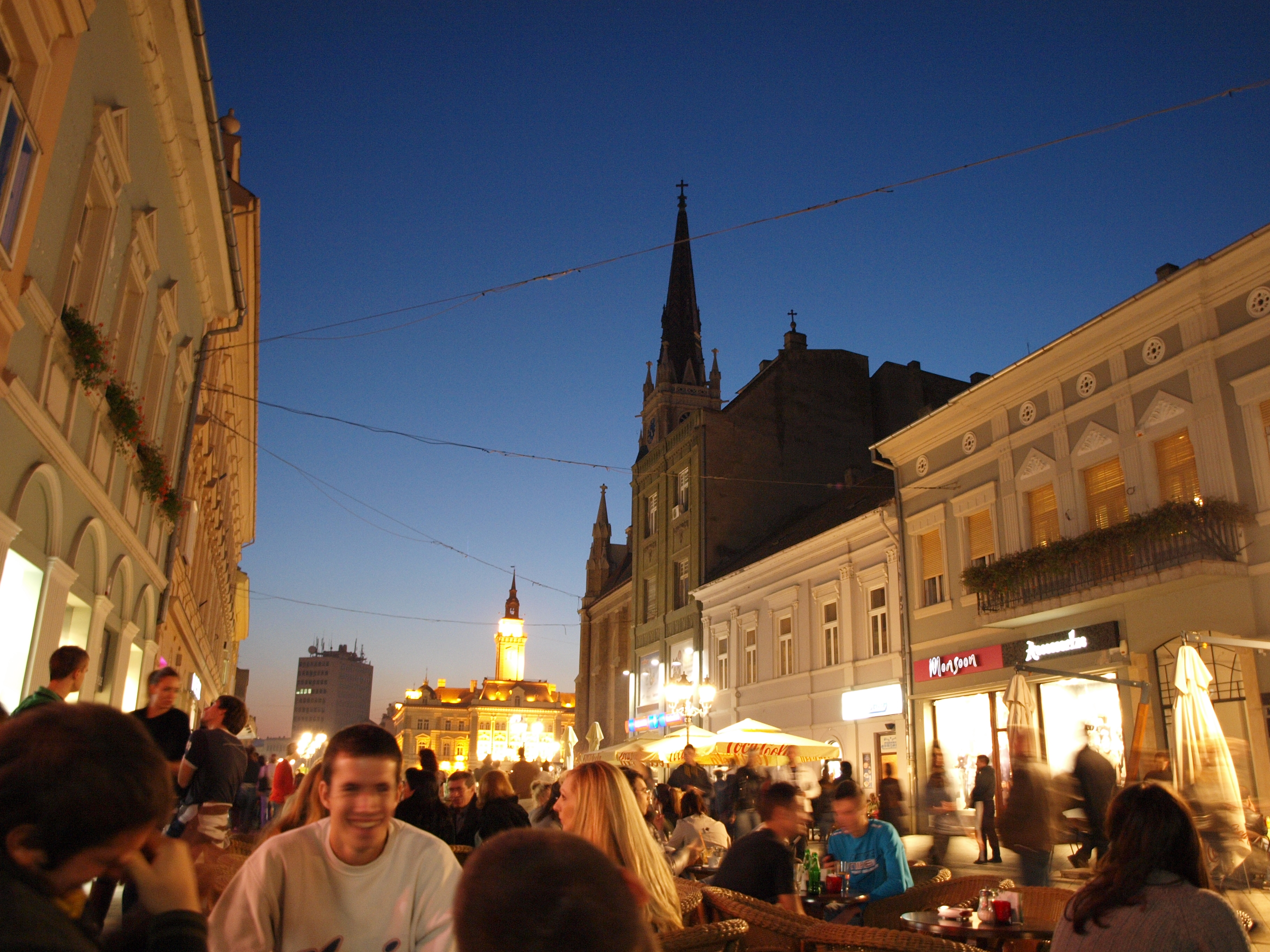 Novi Sad promenade by nigth, Serbia.